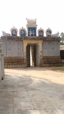 Talaichangadu sangaranesvarar temple தலைச்சங்காடு சங்காரண்யேசுவரர் கோயில்